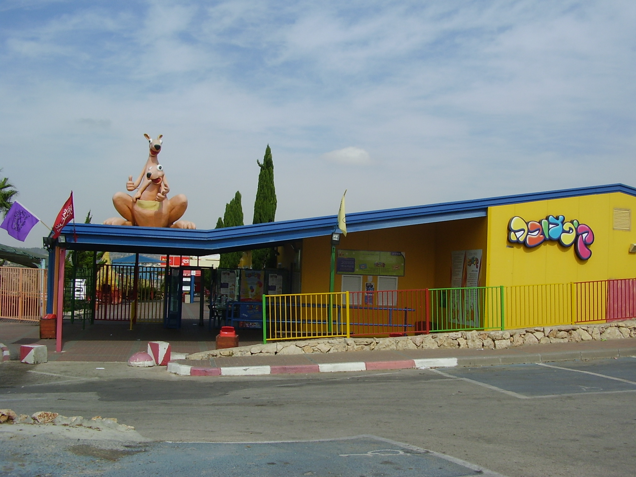 Kiftzuba in Kibbutz Tzuba